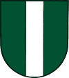 coat of arms Stattegg, Styria, Austria